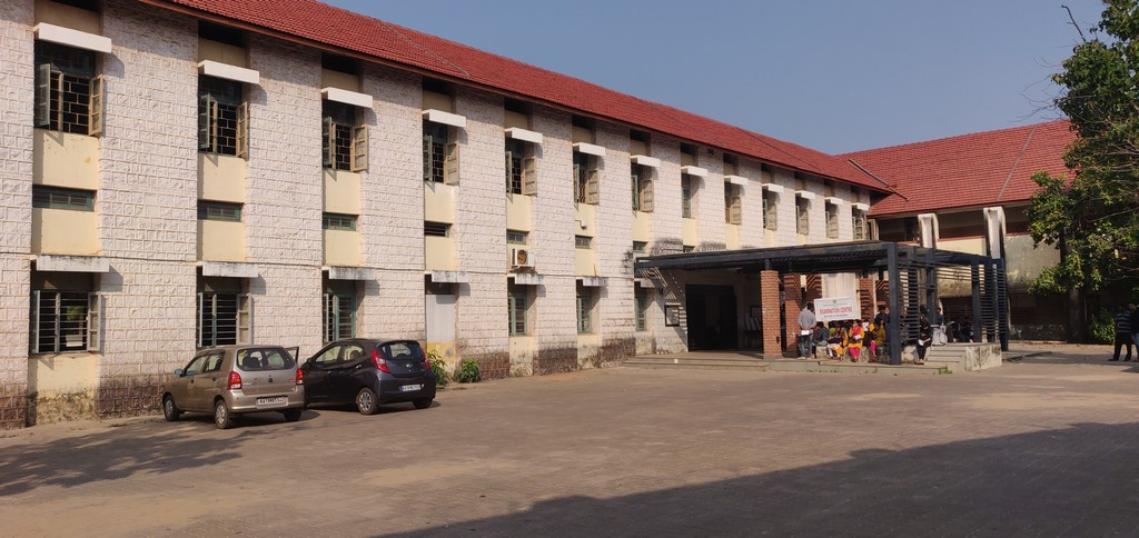 Photo of Canara College Mangaluru, India